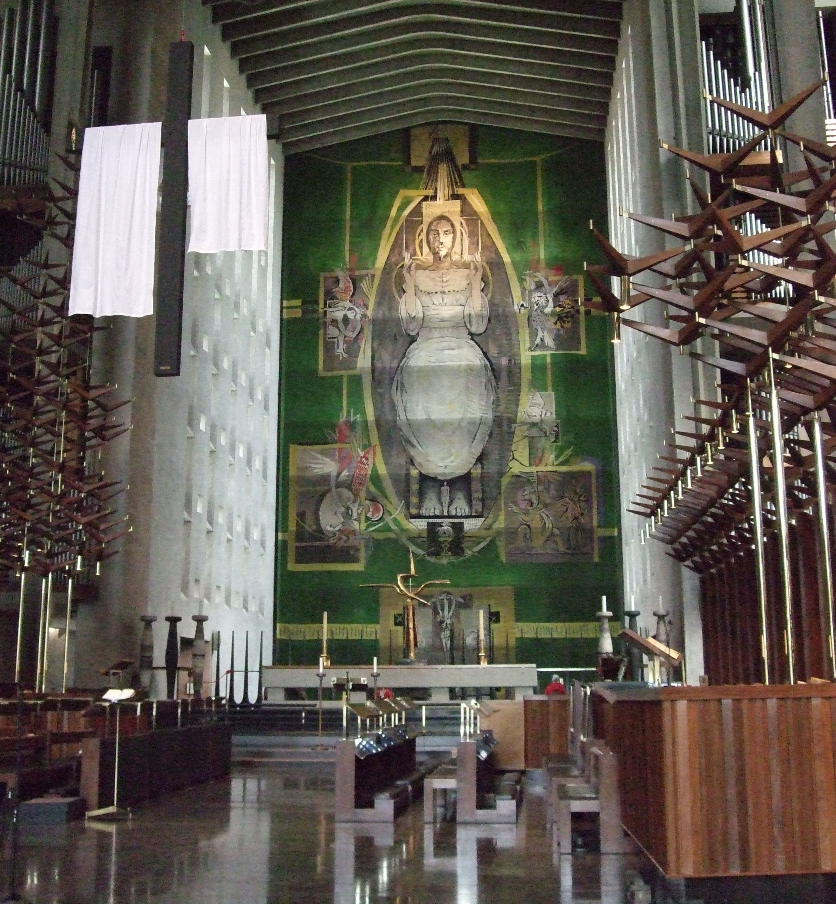 Christ in Glory, Graham Sutherland tapestry, in Coventry Cathedral.